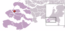 Location Map of Plankendorp, The Netherlands